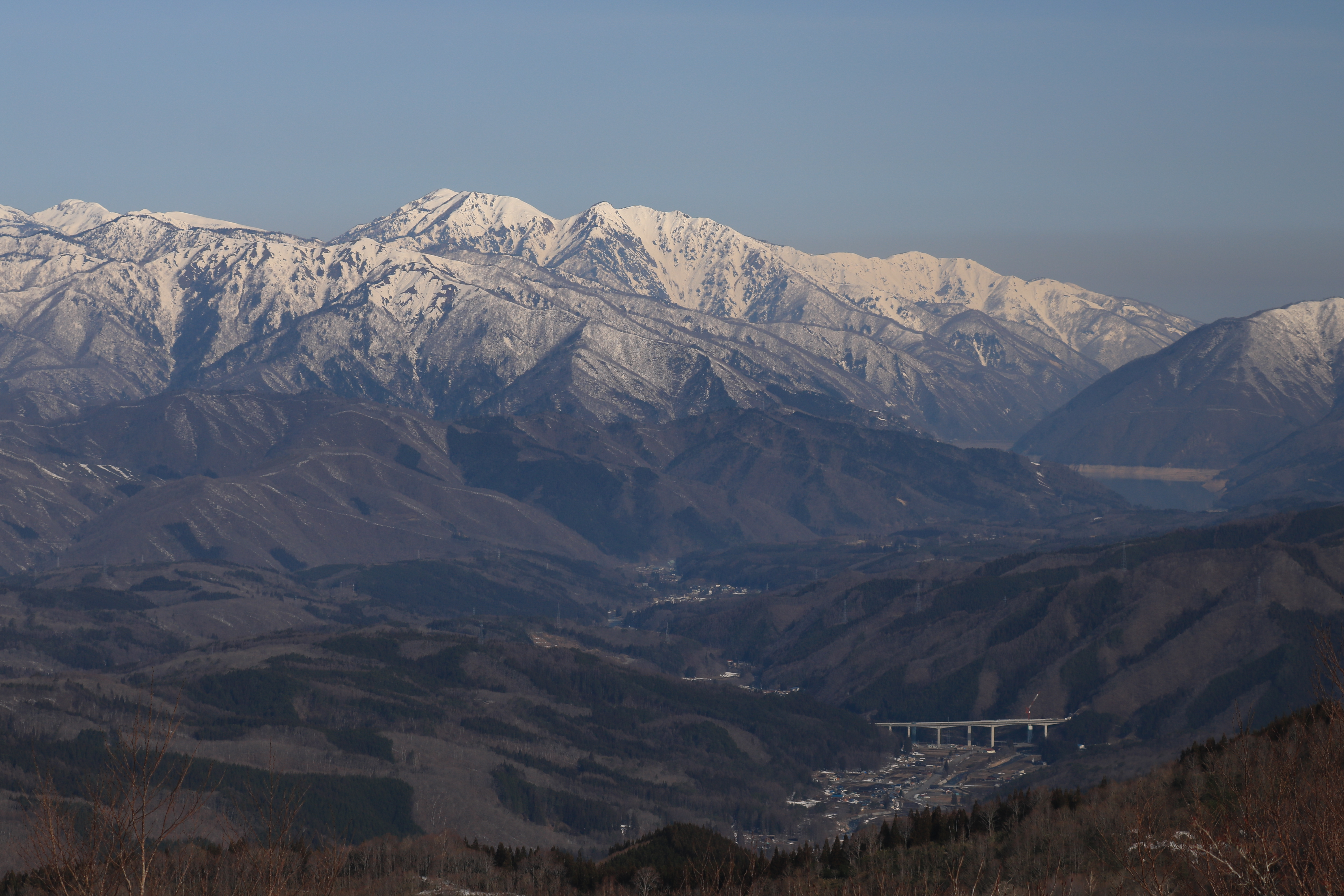 Mount Okusanpo and Mount Sanpokuzure from Osanbaba (Mount Yamanaka) in Gifu Prefecture, Japan.